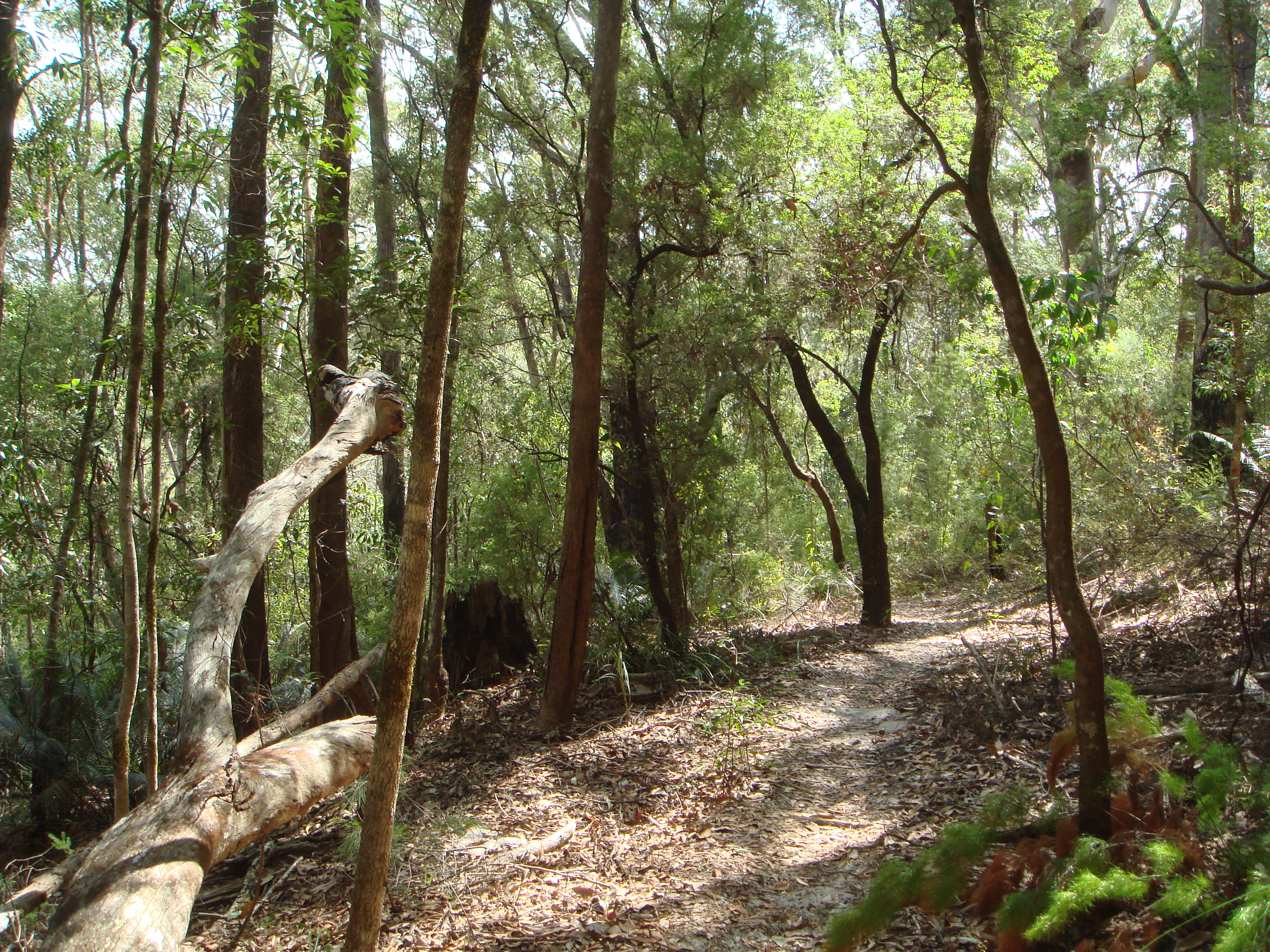 Fraser Island Great Walk, Track between Lake Boomanjin and Lake Benaroon